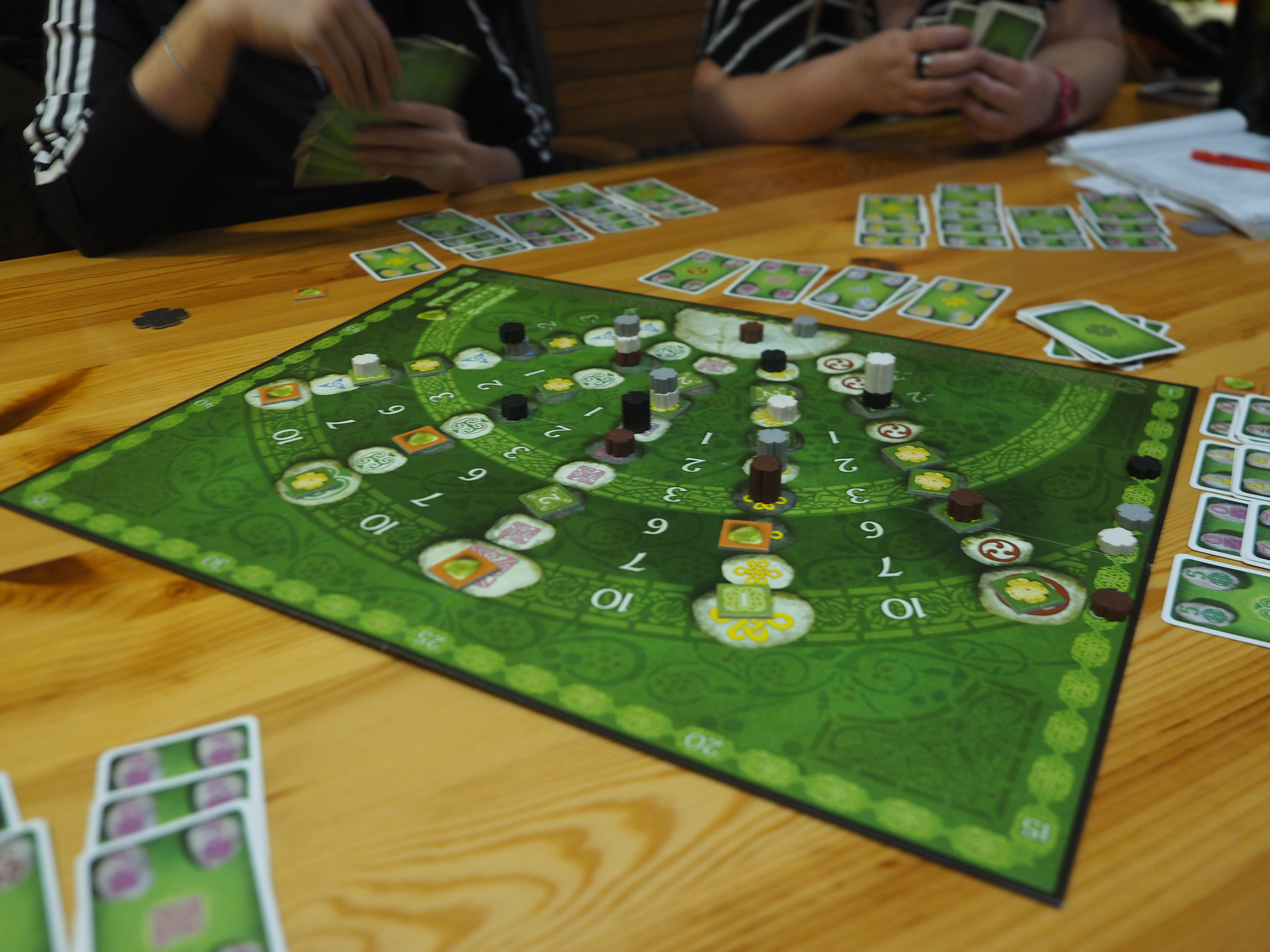 A four-player game of Keltis during play, played at a special board game camp in Hattula, Finland.